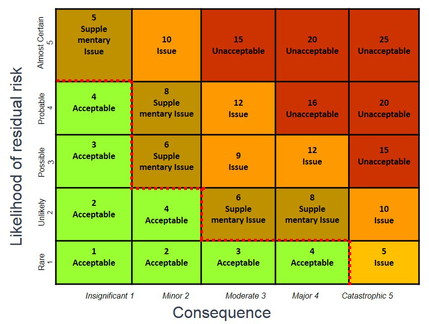 Risk analysis chart